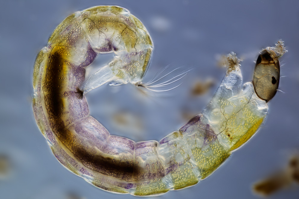 Larvae of Chironomidae (informally known as chironomids or non-biting midges)